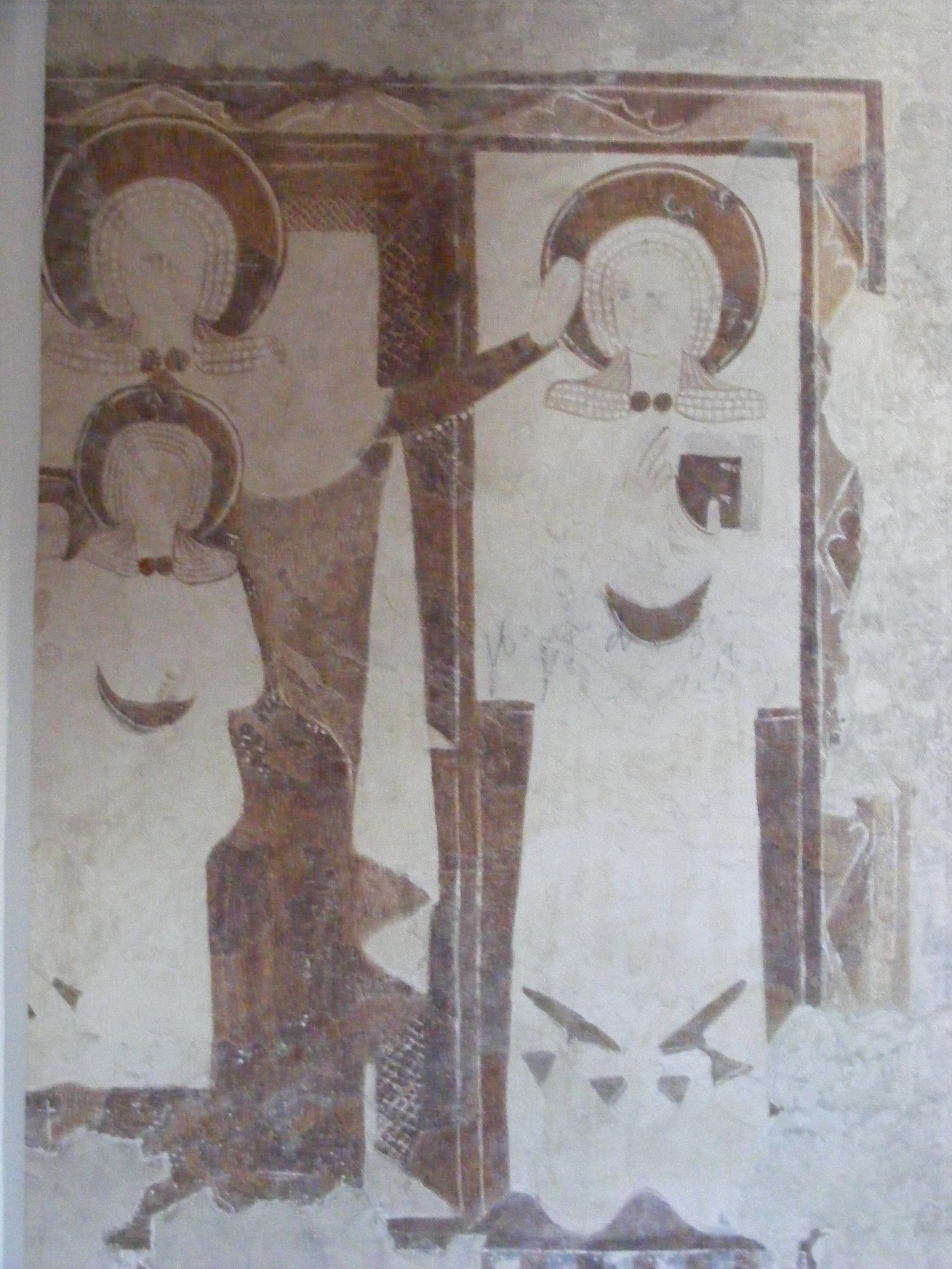 Fresco in the romano-catholic church of Csíkszentkirály (Sâncrăieni)